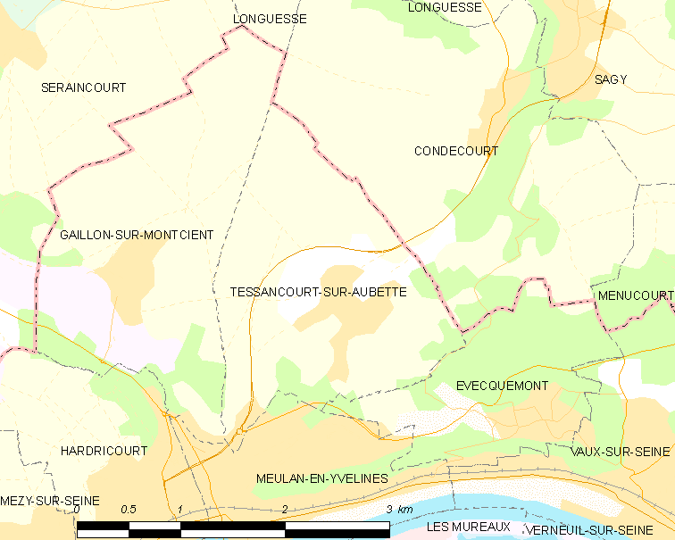 Map of French municipality Tessancourt-sur-Aubette